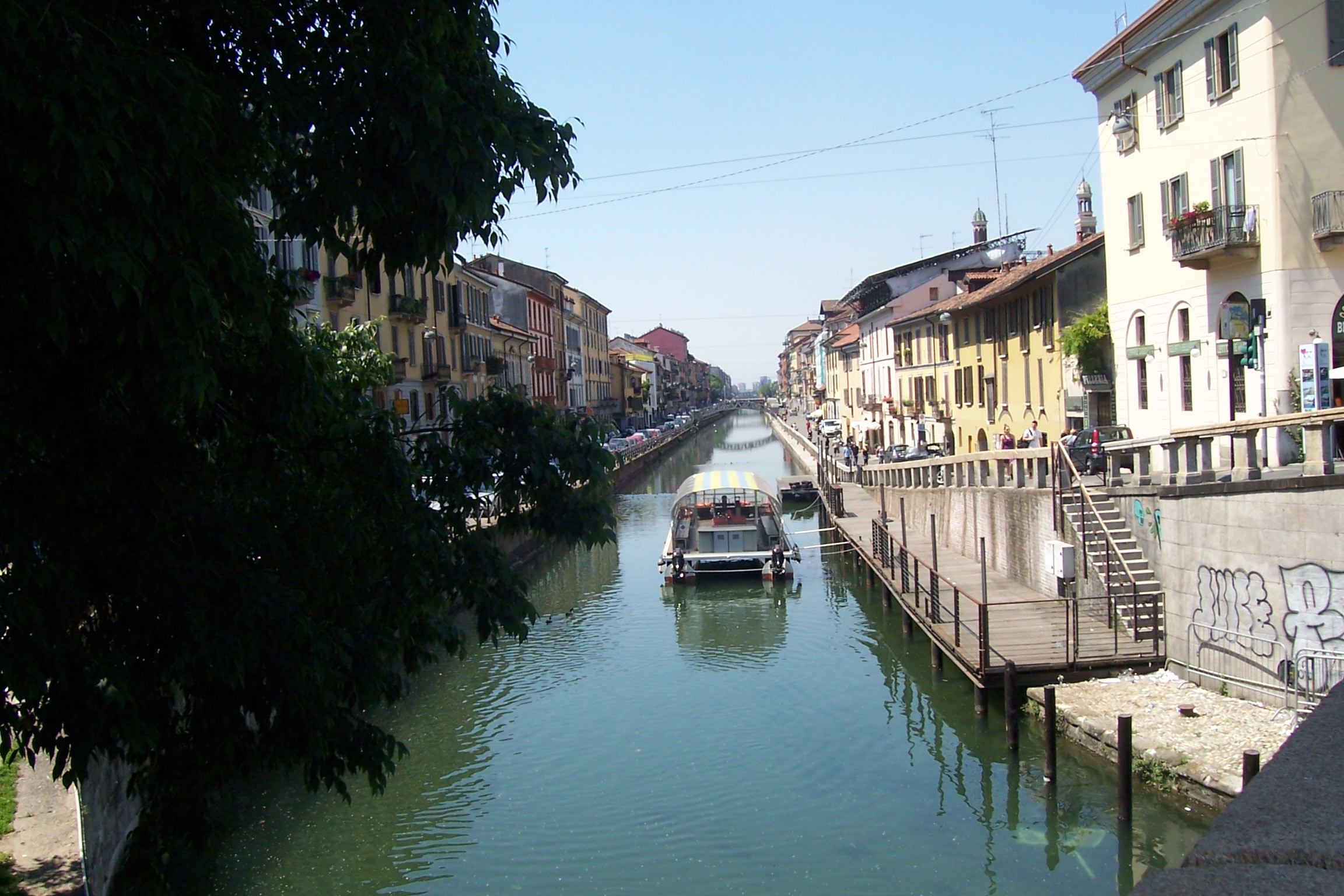 Milano, turistico Peer (Naviglio Grande)